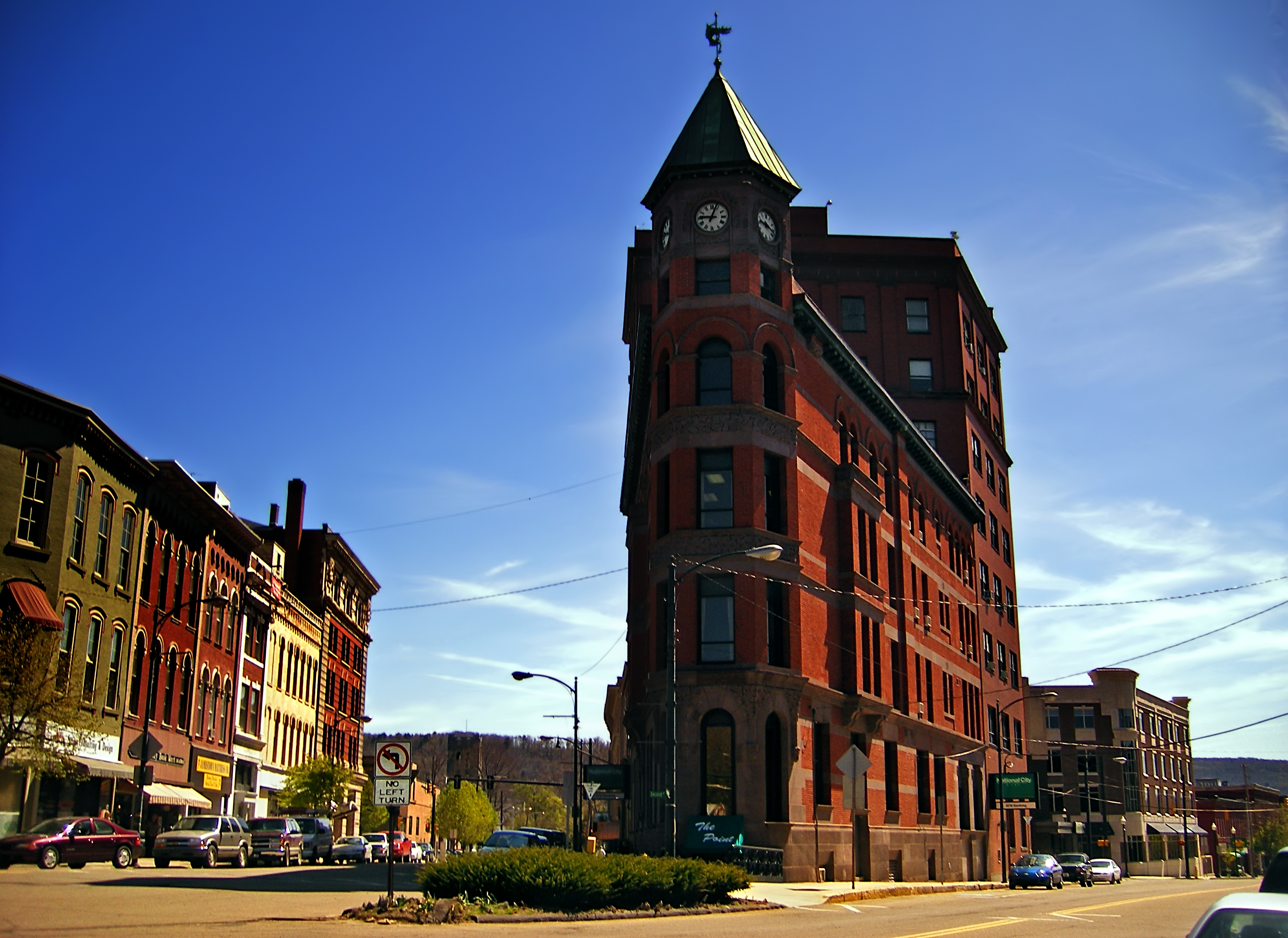 Morning light, Warren.